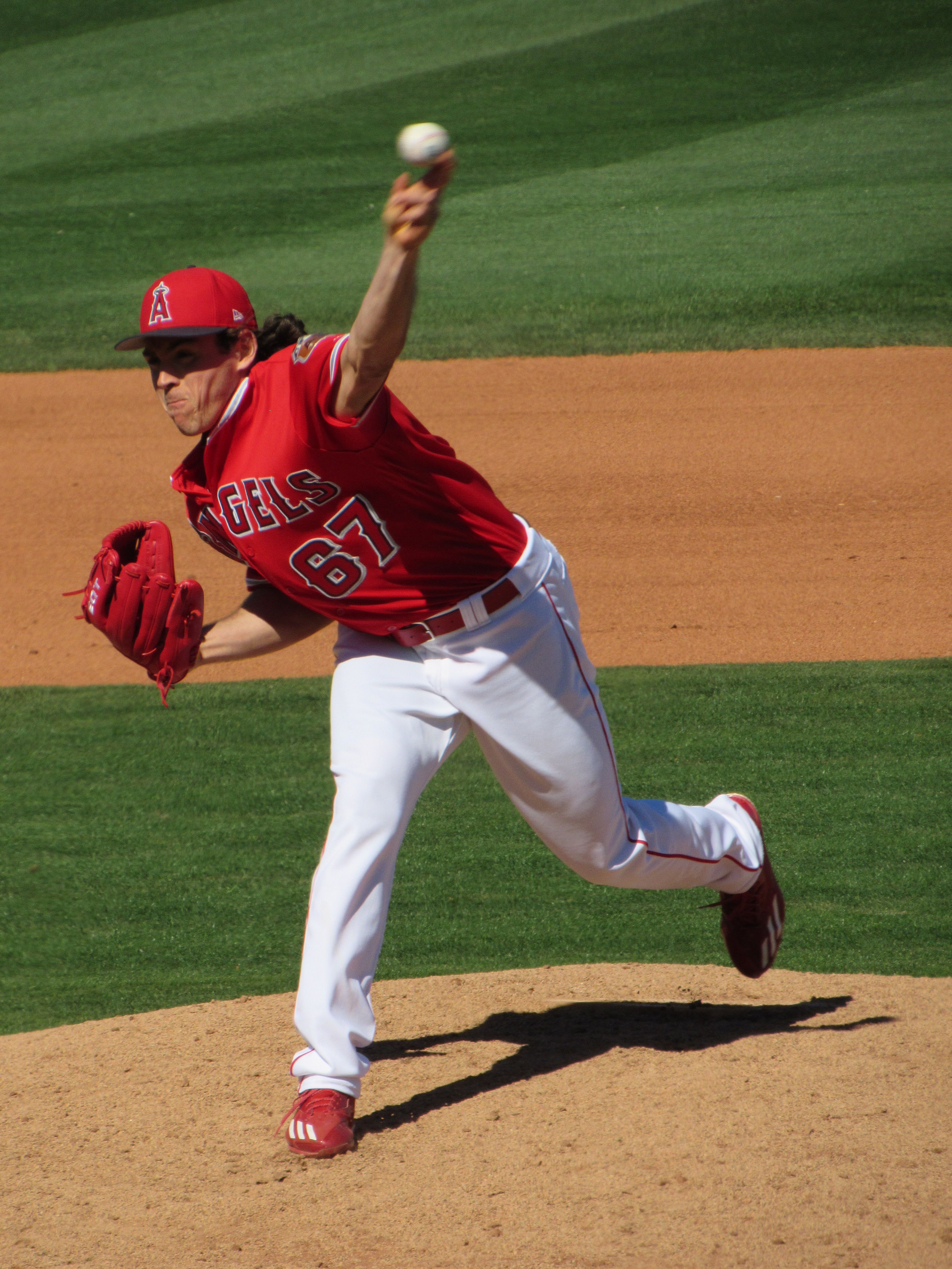 Greg Mahle pitching Spring Training 2017